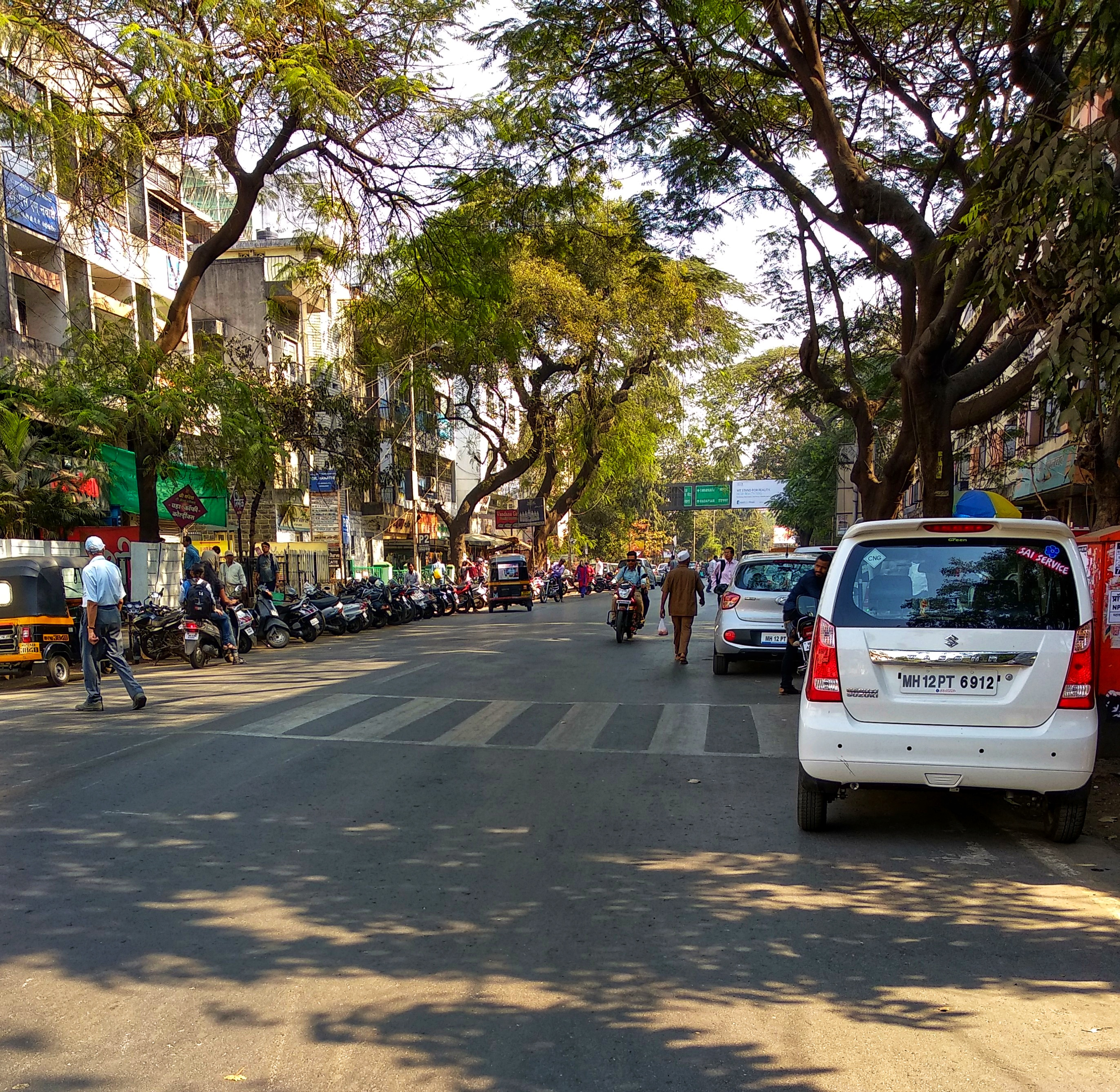 This is an image of Tilak Road in Pune.